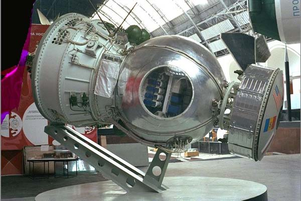 Soviet Cosmos unmanned satellite/spacecraft, on display. The description page lists the bion satellites from Bion 3 to Bion 9 (spanning 1975 to 1989). A similar photograph, which appears to be of the same subject but from a different source, has the caption: Cosmos 782 Spacecraft on display in the Moscow Space Museum. The circular viewport was installed for display purposes.